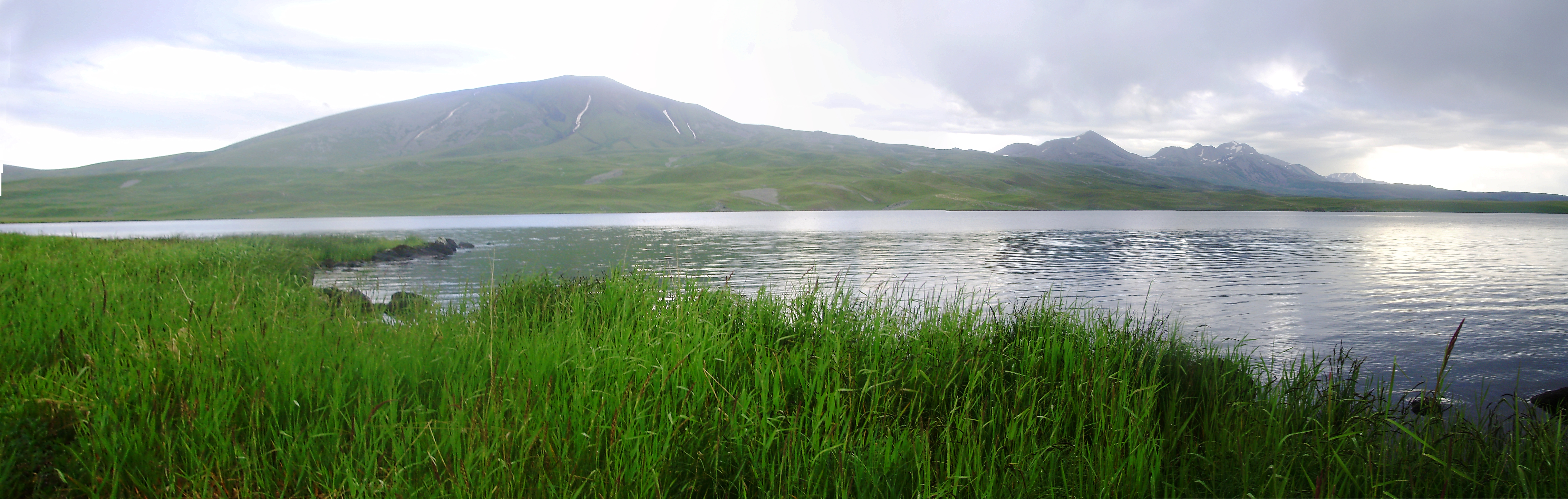 I took this picture in July 2008, it shows the Abuli-Samsari mountain range from the Tabatskuri lake